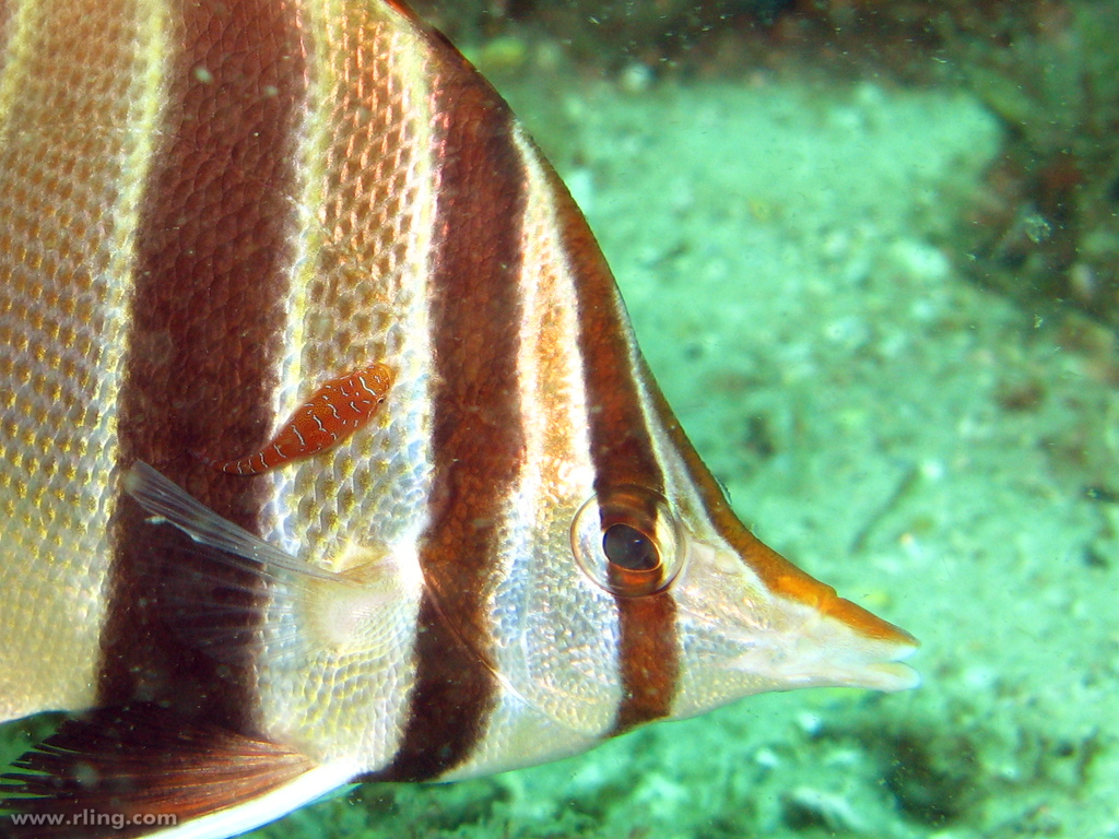 An Eastern Cleaner Clingfish (Cochleoceps orientalis) cleaning an Eastern Talma (Chelmonops truncatus). Fly Point, Port Stephens, NSW